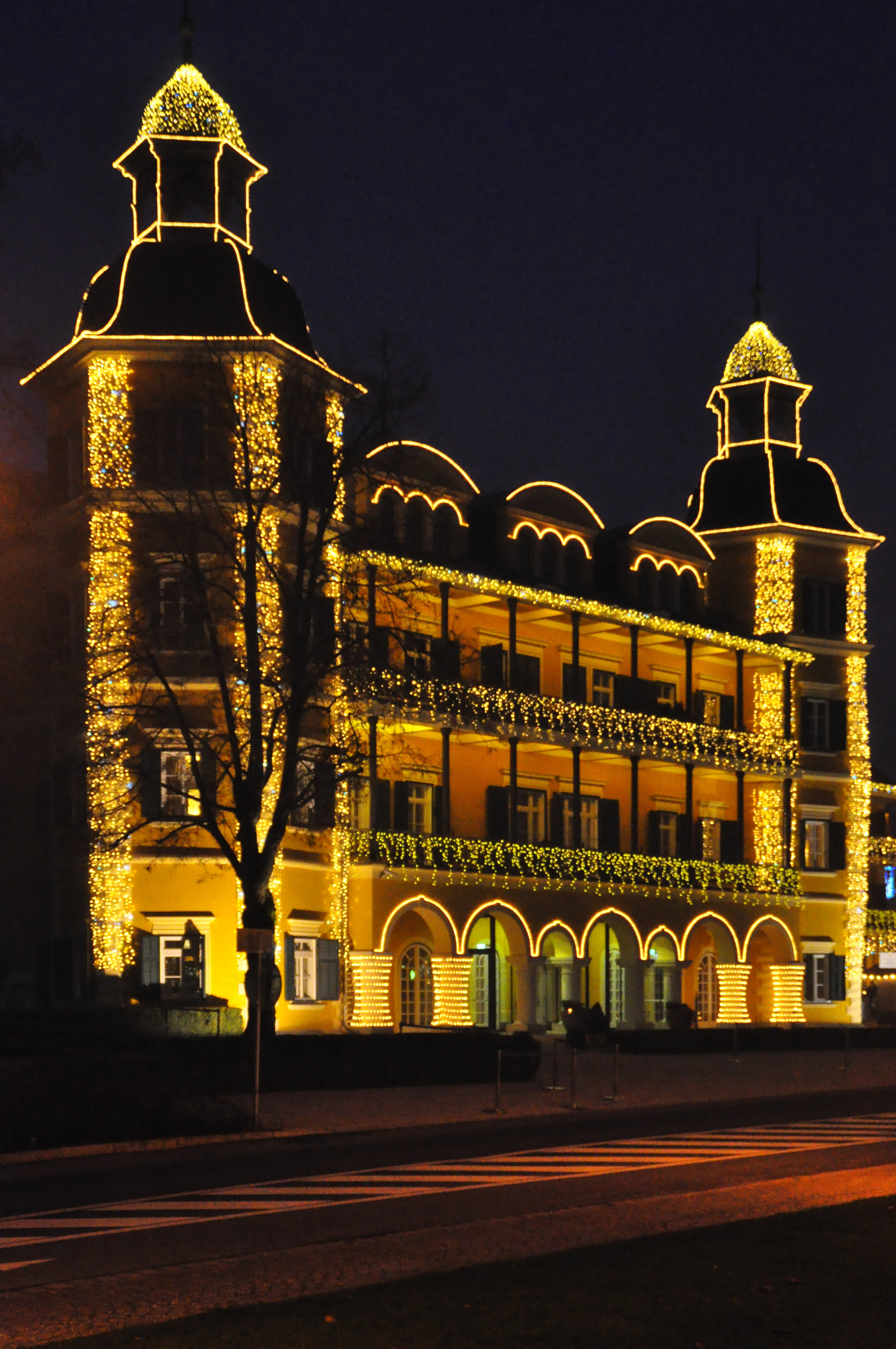 Castle Velden on Seecorso #10 in Velden am Wörthersee, district Villach Land, Carinthia / Austria / EU